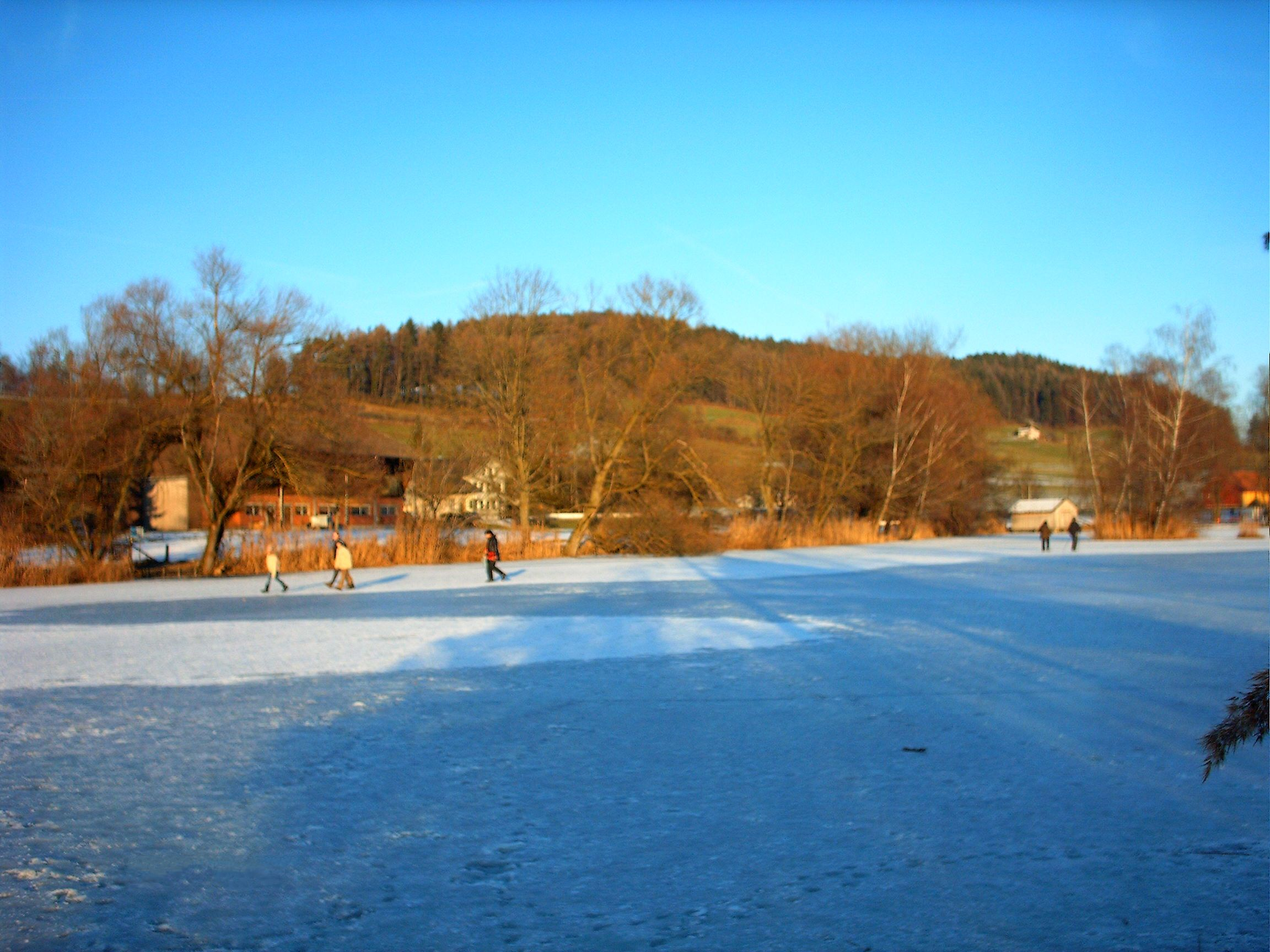 View from an island in the middle of frozen lake "Bettenauer Weiher" direction NE